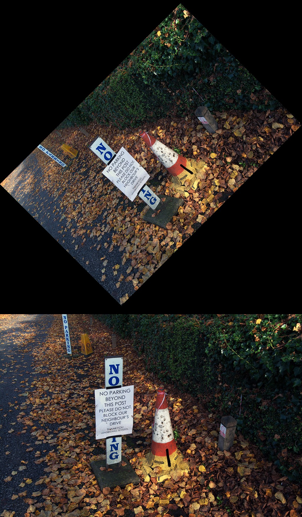 An illustration of the 45 degree arrangement of the sensors in Fuji's Super CCD sensor. At the top, the RAF raw file translated with DCRaw, without scaling or pixel rotation. At the bottom, the same file processed with Adobe Camera Raw. Image shot with a Fuji S2 Pro.